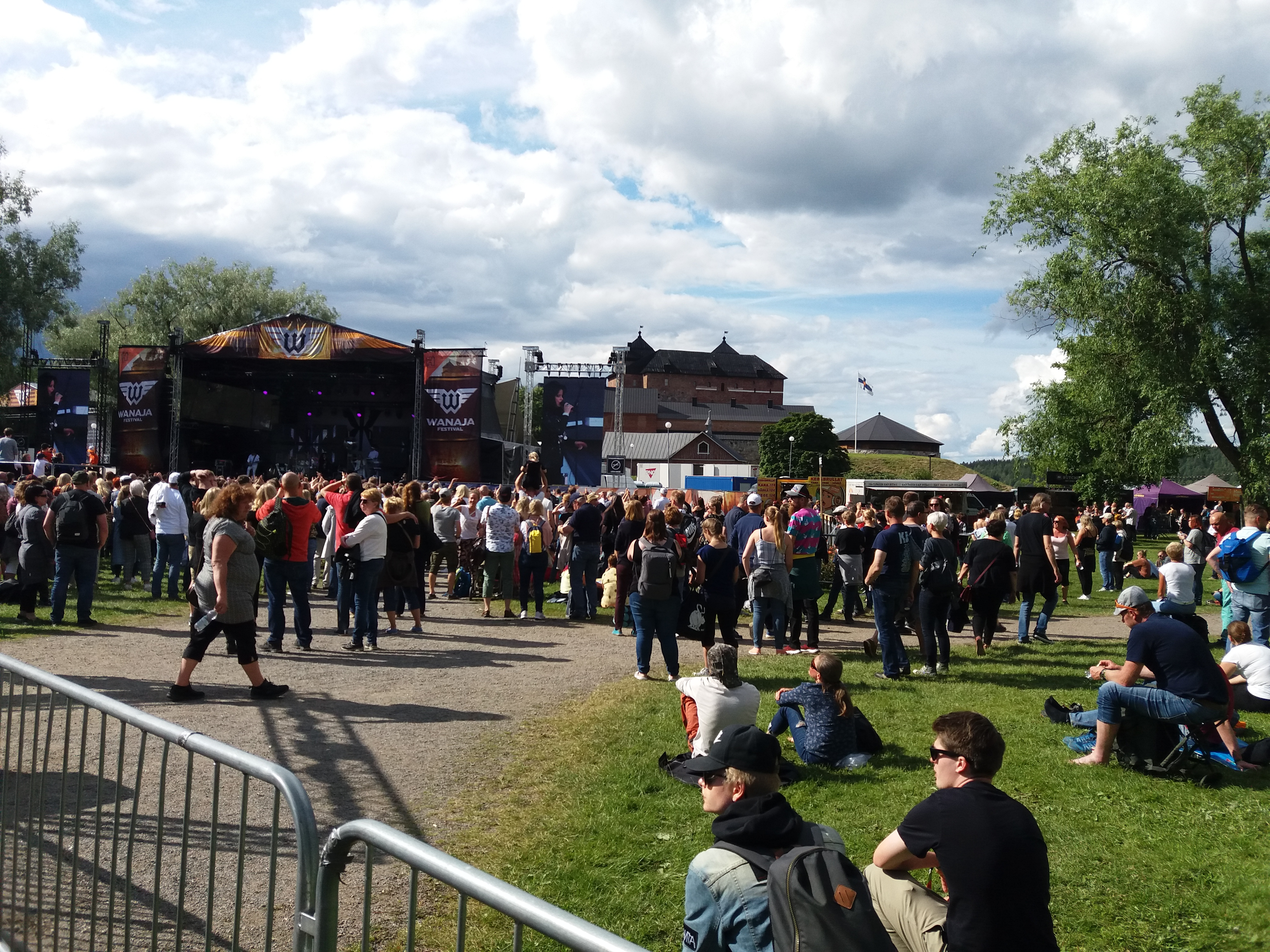 Wanaja Festival, a Finnish pop and rock festival in Hämeenlinna, Finland, 6.7.2019. Kaija Koo is performing.